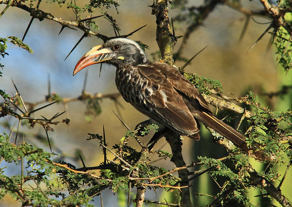 A female African Grey Hornbill near Sawela Lodge, Lake Naivasha, Kenya.